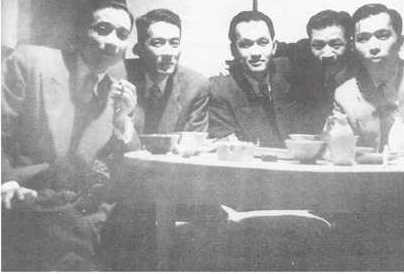 And with the teachings of the Constitutional scholars Liu Qingrui photo in 1954.